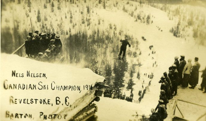 Nels Nelson jumping at the Big Hill ski jump in Revelstoke, British Columbia, Canada